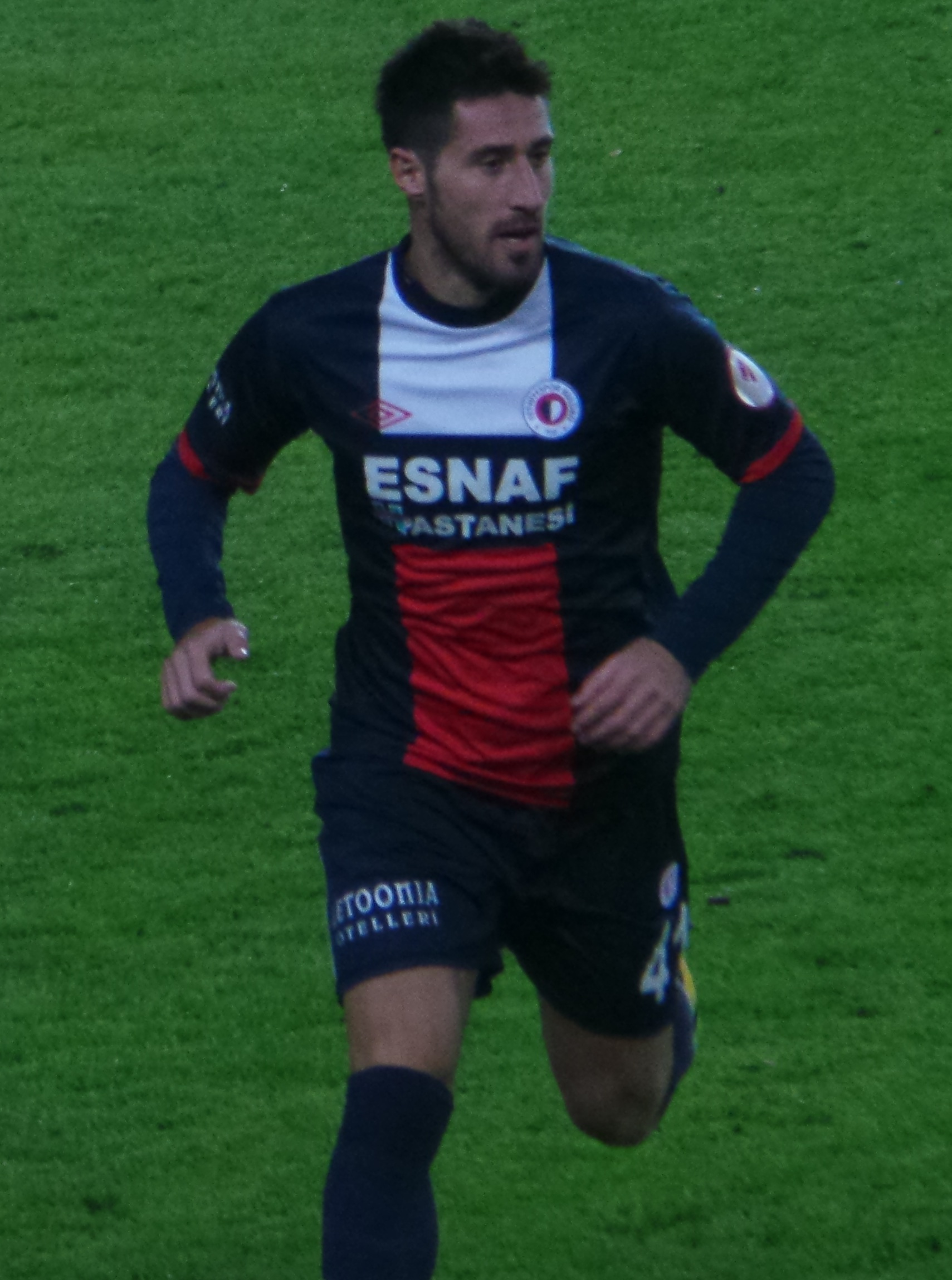 Emre Okur